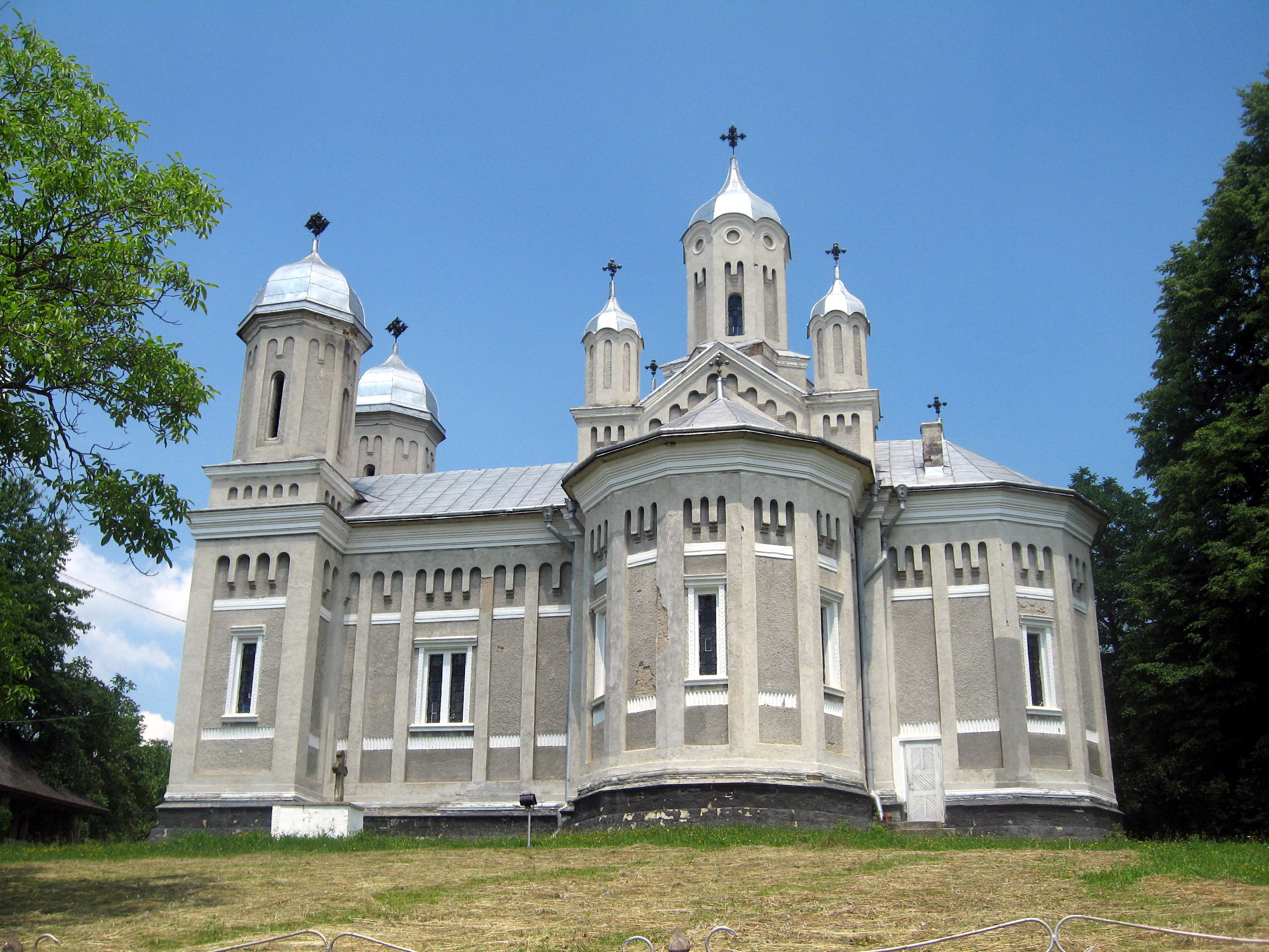 St. John the New Church in Cacica, Suceava County, Romania